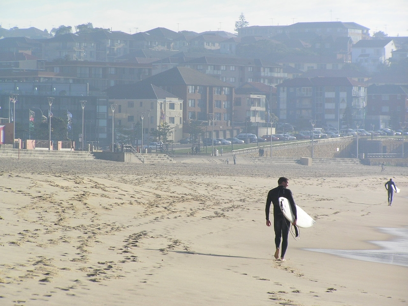 Photo by Bilbao02, July 2006